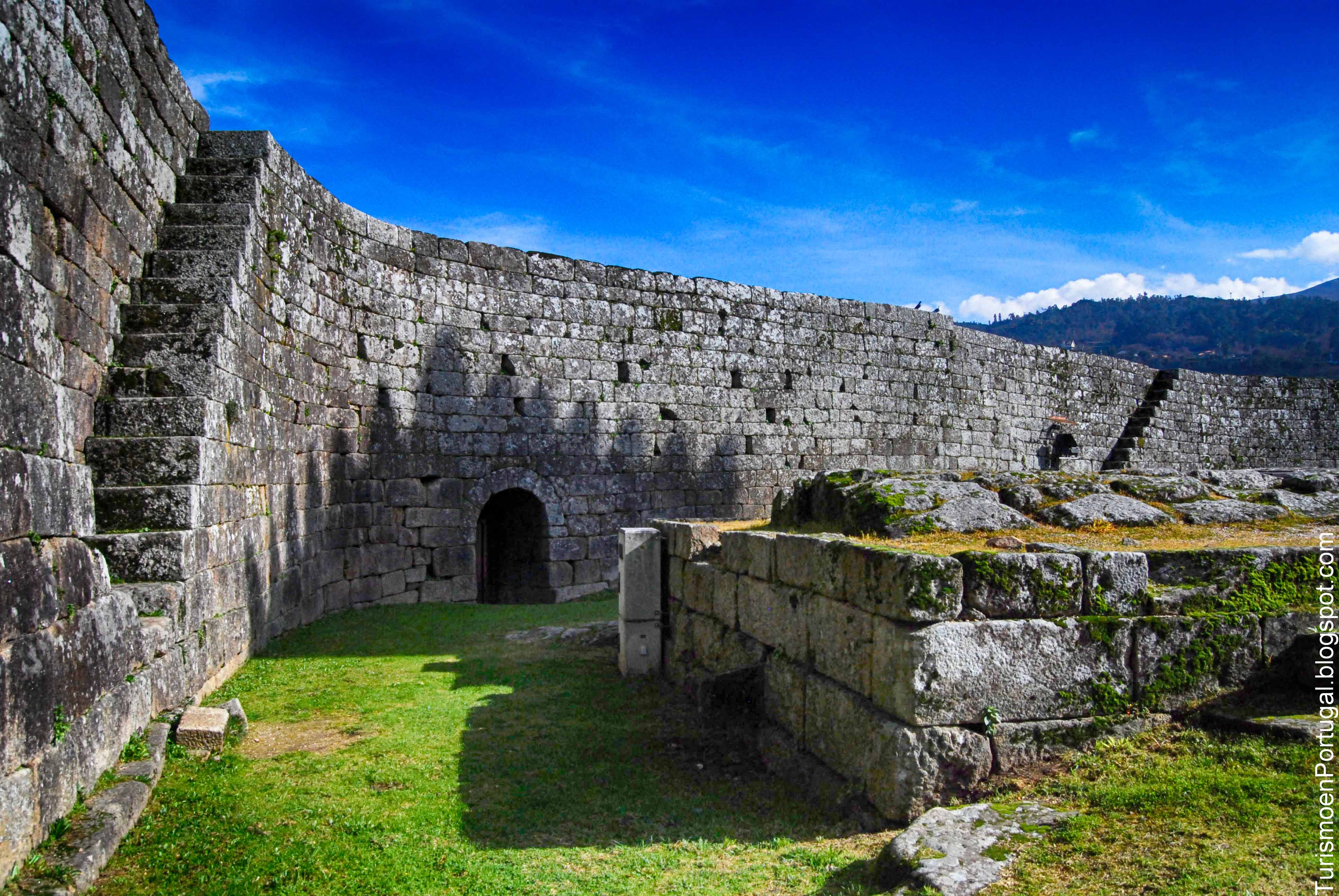 Medieval castle in Melgaço